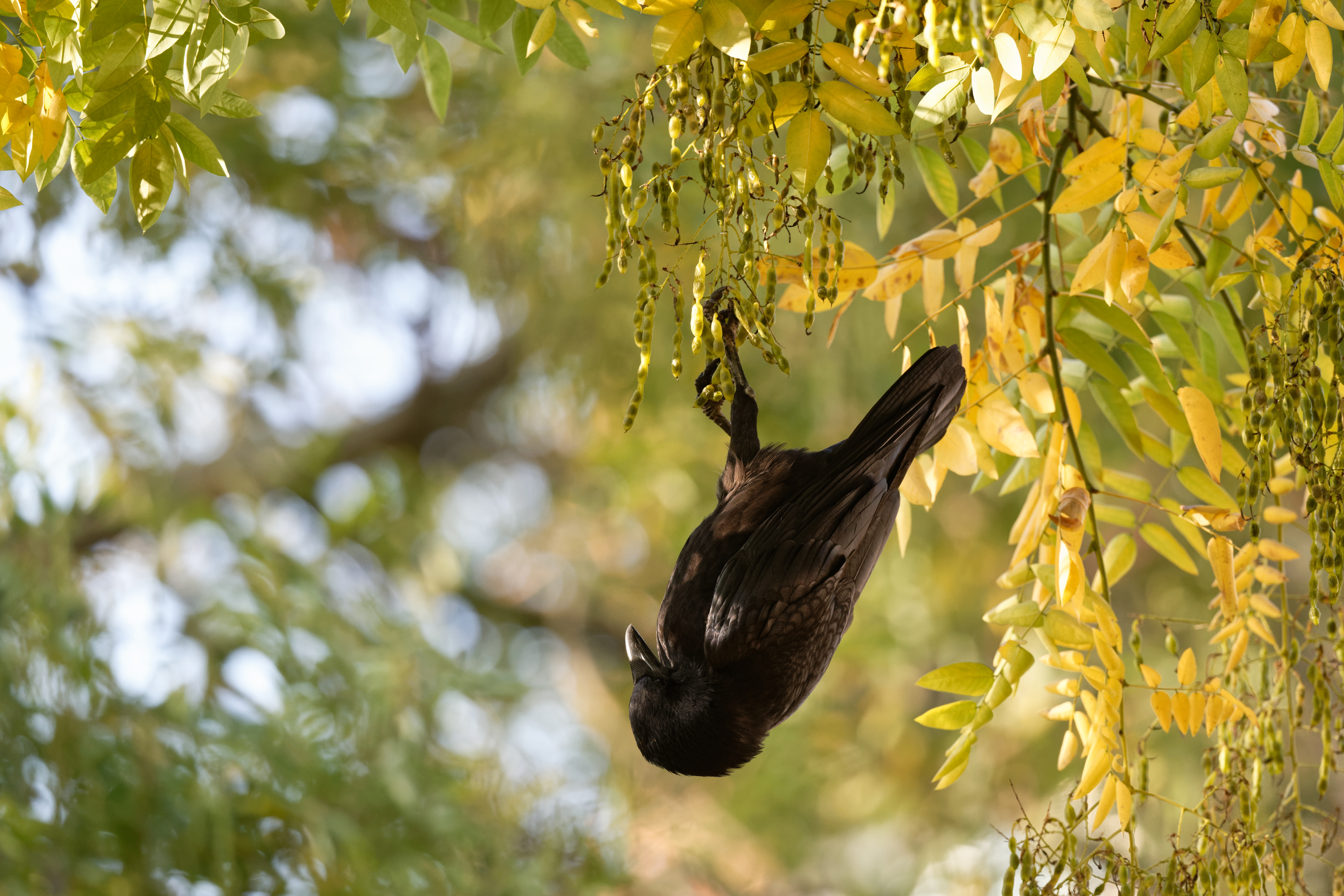 Carrion crow (Corvus corone) hanging upside down in the Bois de Vincennes, Paris.